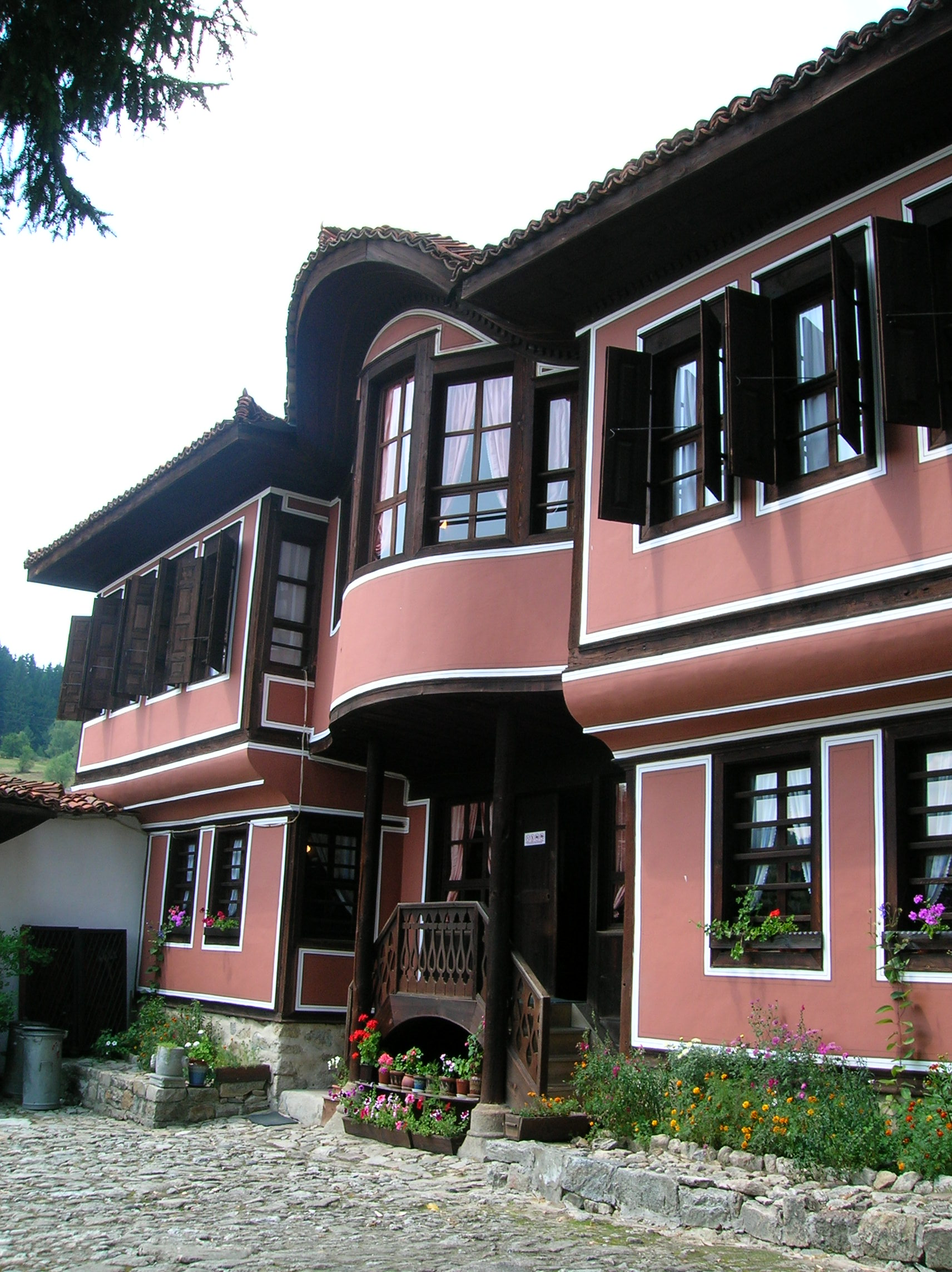 Kableshkov House, in Koprivshtitsa (Bulgaria).